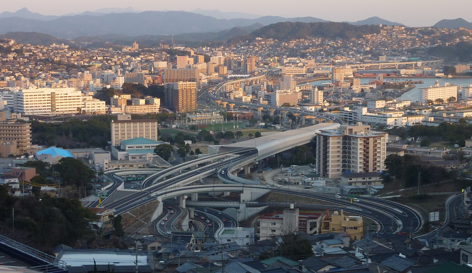 The Sasebo Chuo (Central Sasebo) Interchange of Nishi-Kyushu Expressway in Sasebo City, Nagasaki Prefecture, Japan.